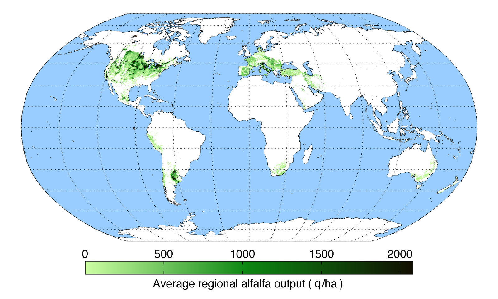 Map of alfalfa production (average percentage of land used for its production times average yield in each grid cell) across the world compiled by the University of Minnesota Institute on the Environment with data from: Monfreda, C., N. Ramankutty, and J.A. Foley. 2008. Farming the planet: 2. Geographic distribution of crop areas, yields, physiological types, and net primary production in the year 2000. Global Biogeochemical Cycles 22: GB1022